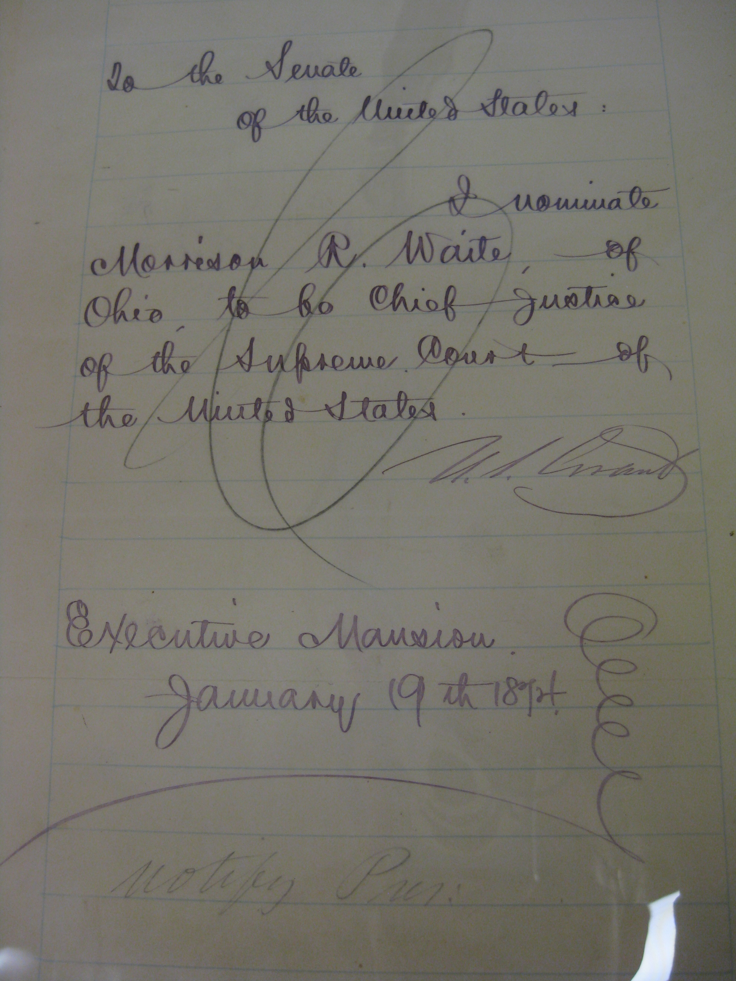 Ulysses Grant's nomination of Morrison Waite to serve as Chief Justice of the U.S. Supreme Court. Courtesy of the National Archives and Records Administration.